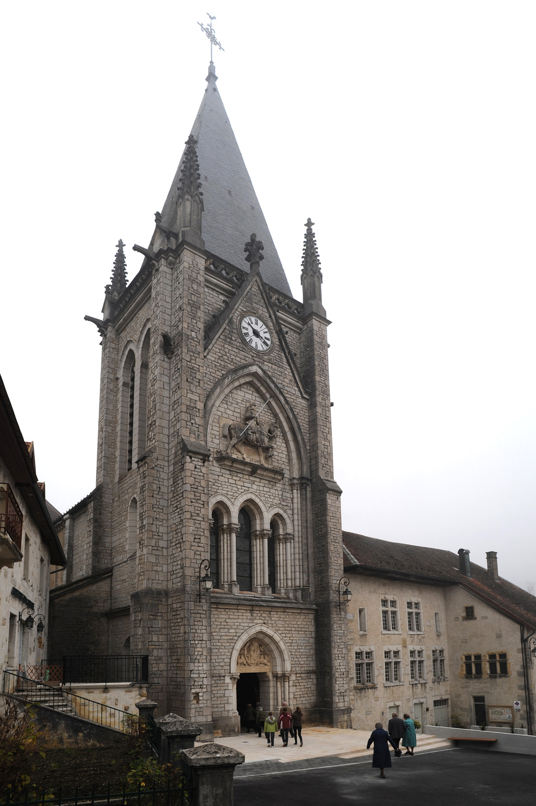 Church and ancient Augustinian abbey, Montbenoît, France.